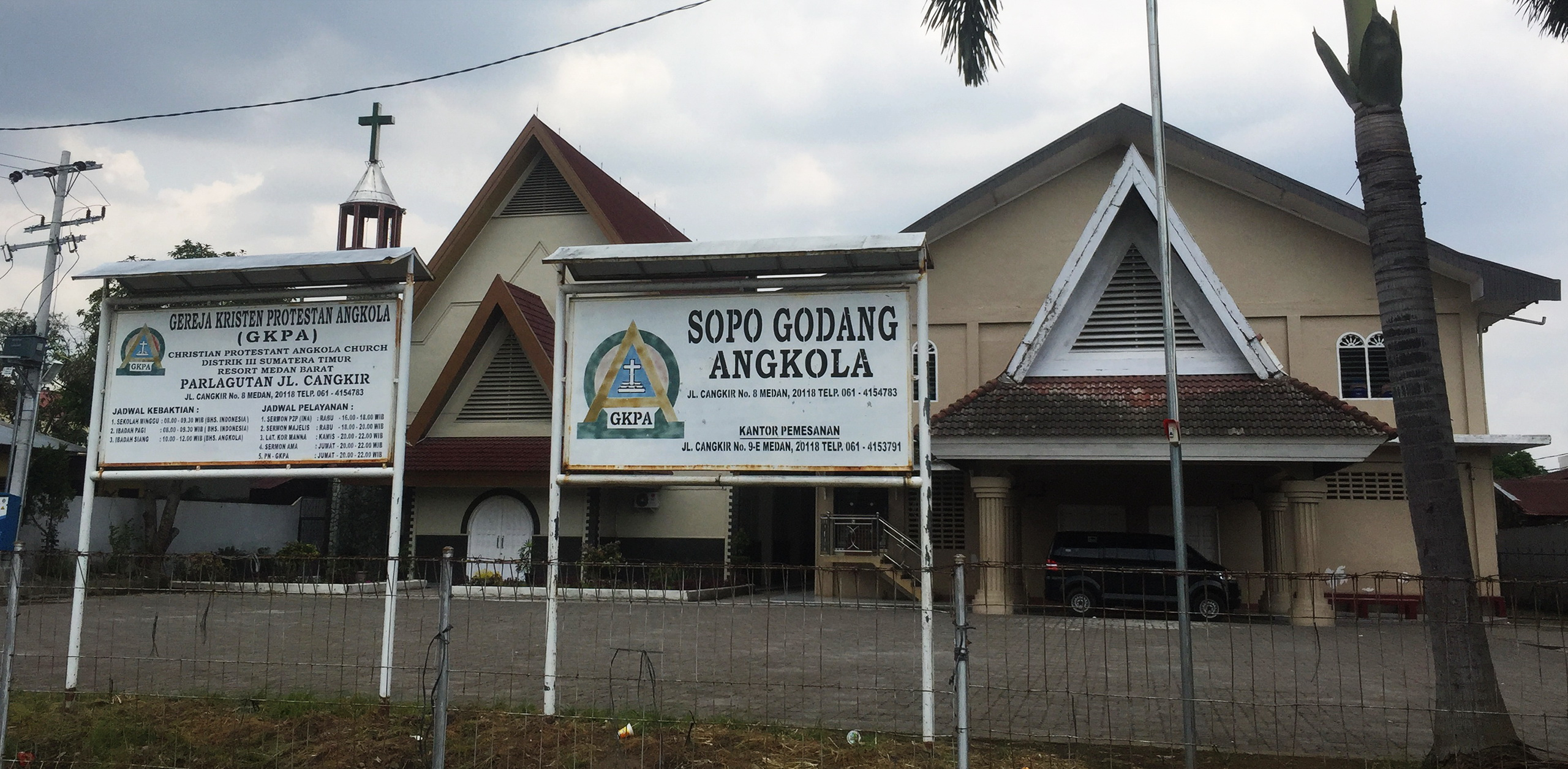 GKPA Jl. Cangkir, Church in Sei Putih Tengah, Medan Petisah, Medan